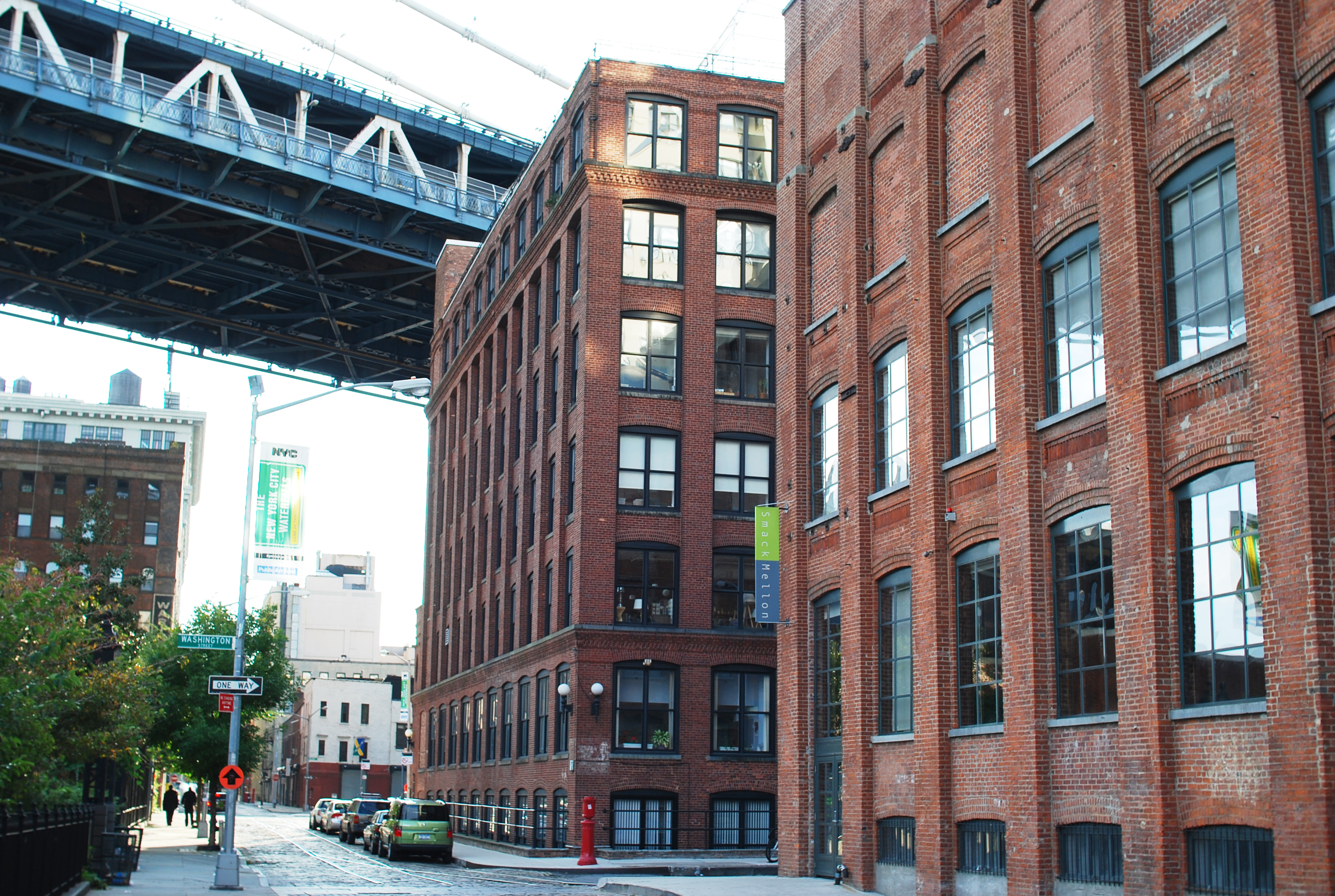 Looking east at Washington and Plymouth Streets, ZIP 11201.